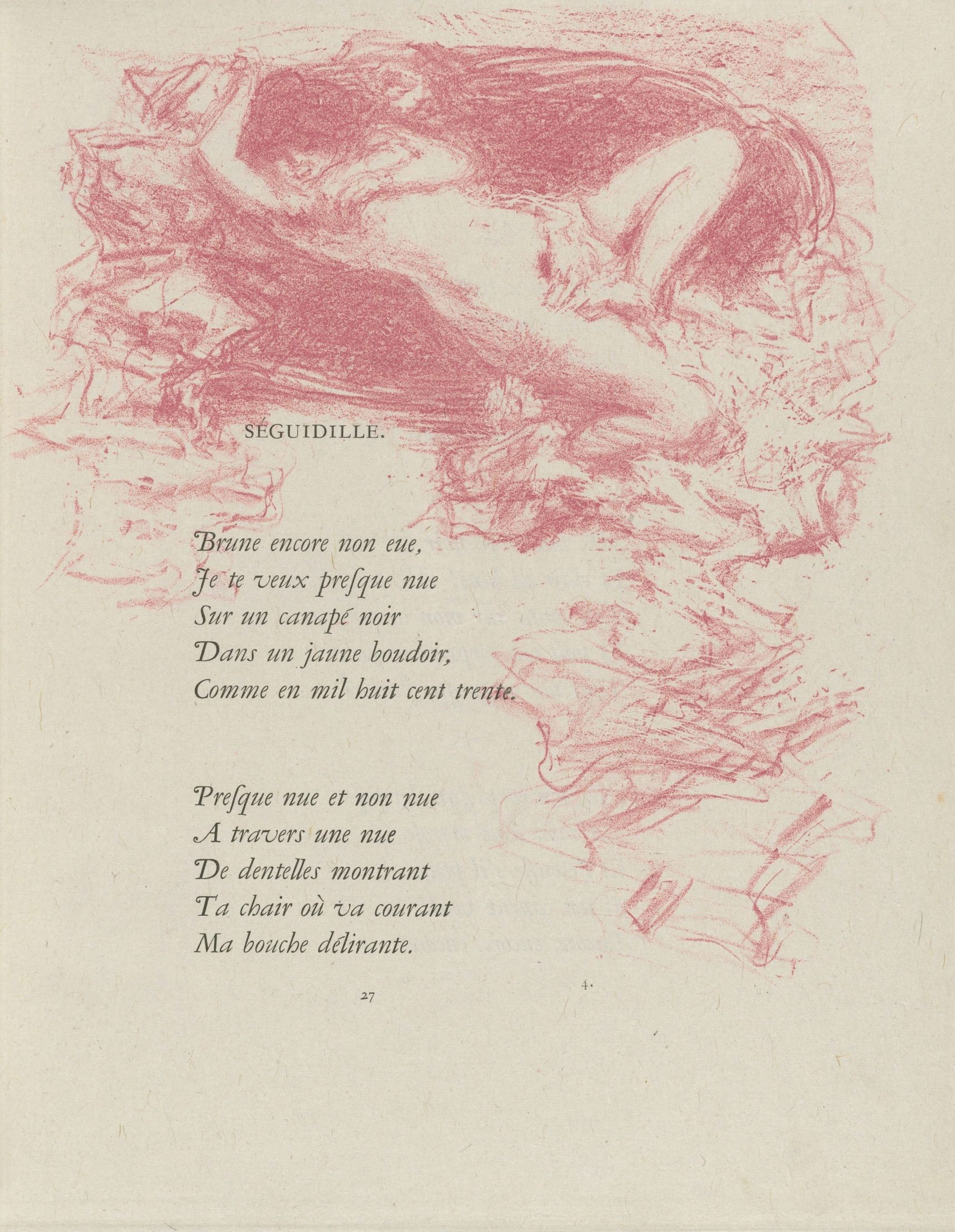 Illustration and text: "Séguidille", page 27. From Parallèlement, Paris: A. Vollard, 1900, by Paul Verlaine (1844-1896). Typ 915.00.8680, Houghton Library, Harvard University